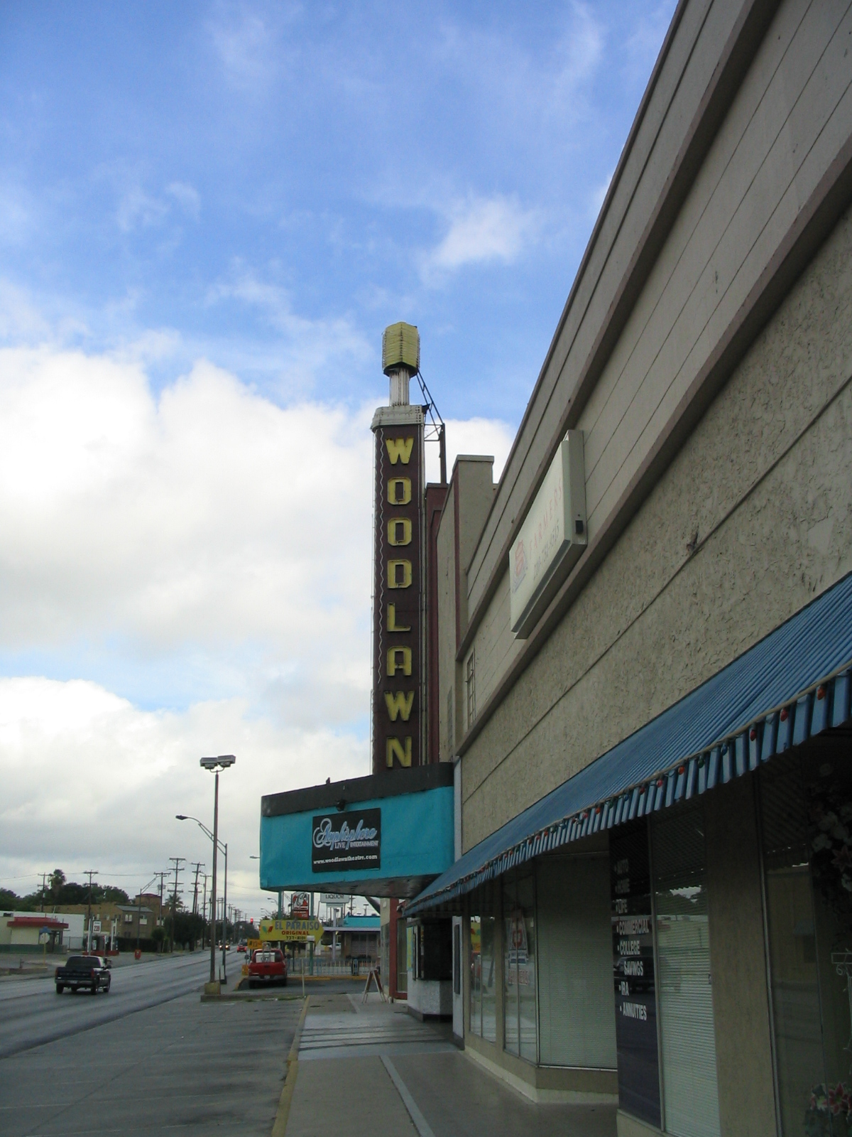 An exterior shot of the Woodlawn Theatre in San Antonio, Texas, taken July 4, 2009.